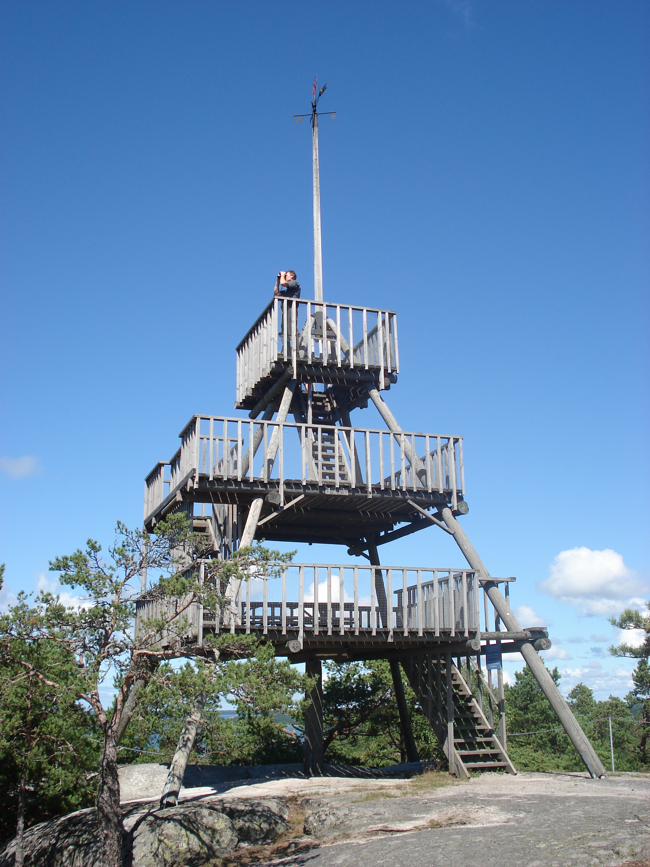 Observation tower in Houtskär, Väståboland, Finland.